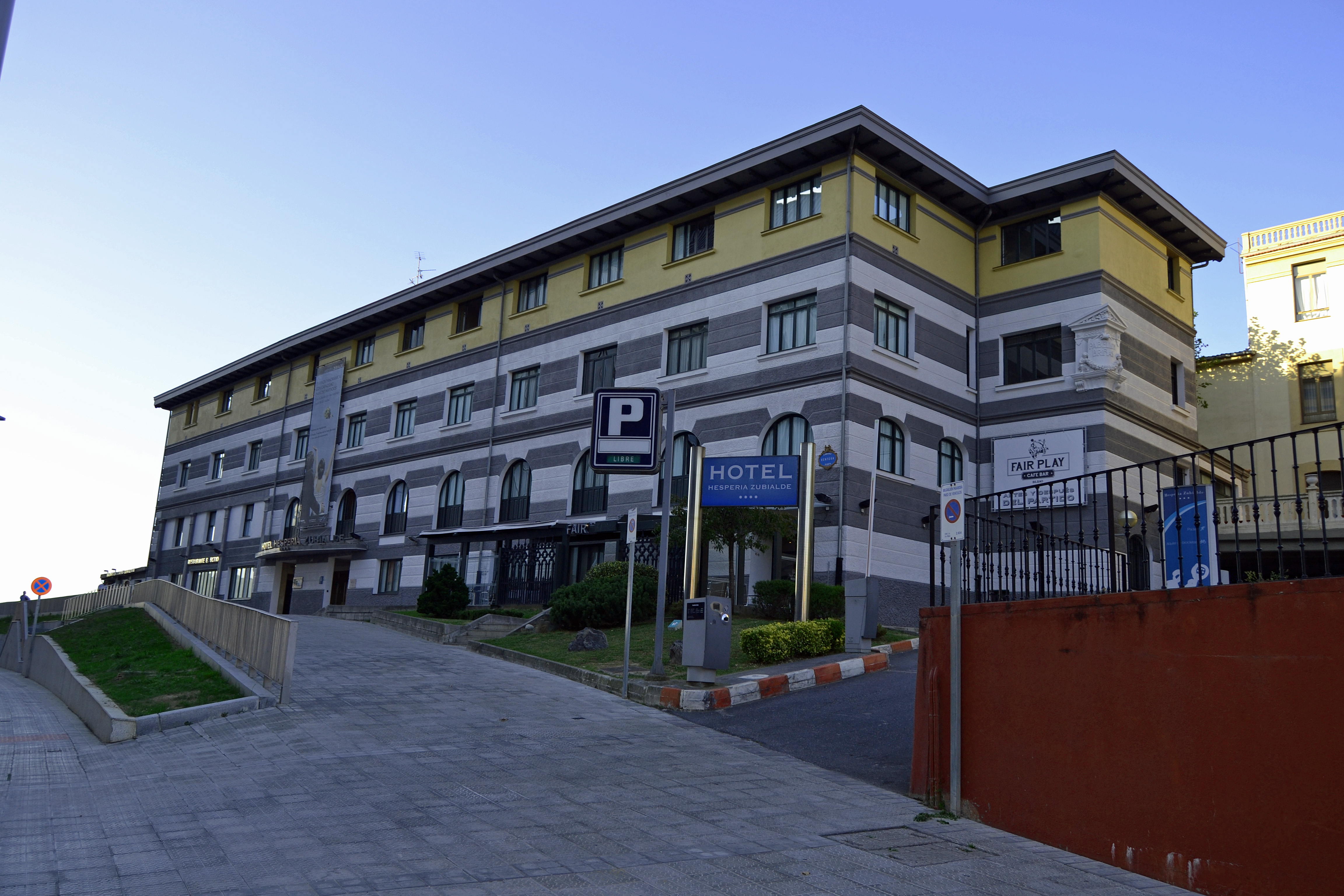 Hotel Hesperia Zubialde, Bilbao. Bizkaia, Basque Country.